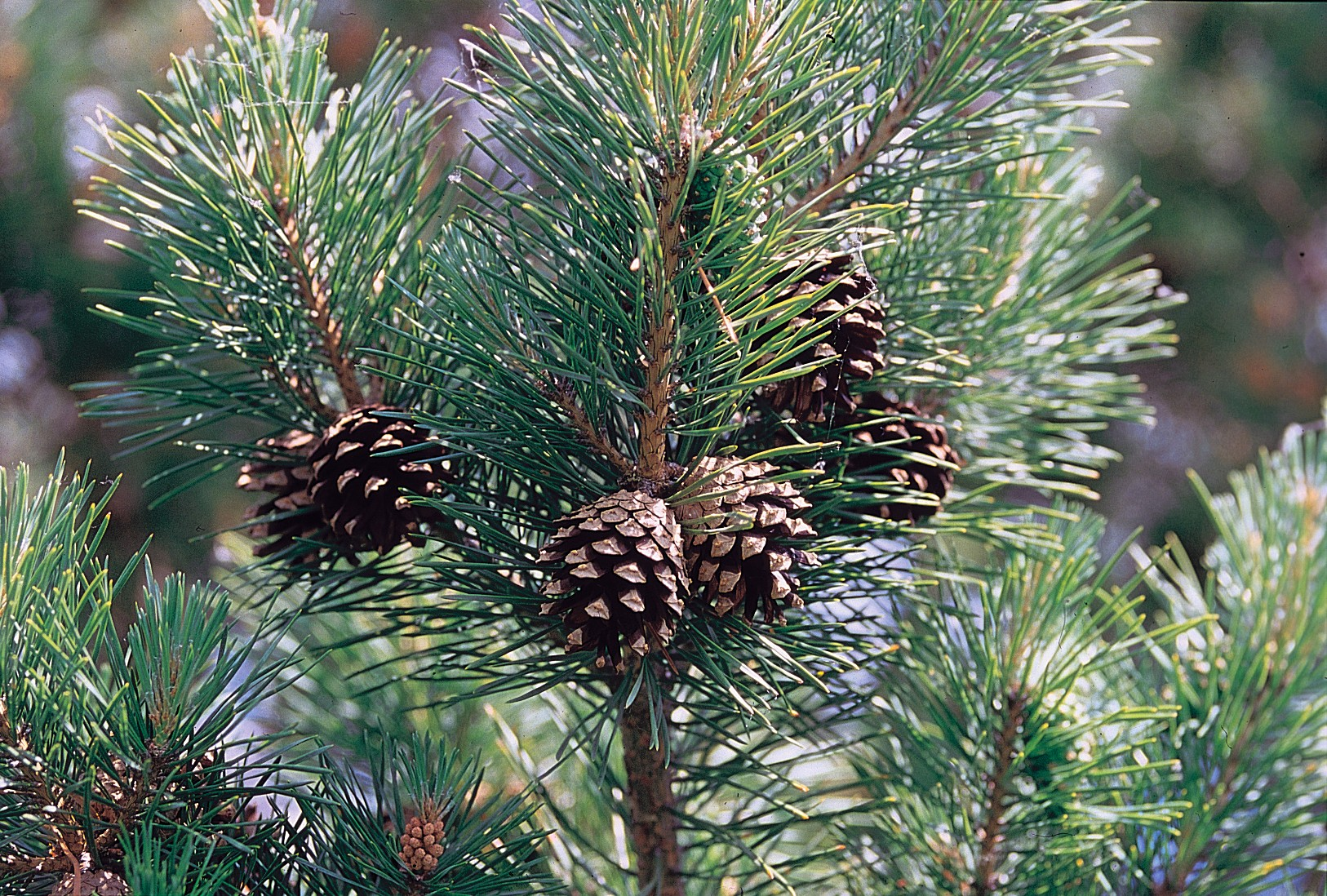 Scots Pine. Branch with pine cones.